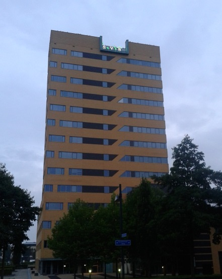 Office of the Sociale Verzekeringsbank in Dukenburg, Nijmegen